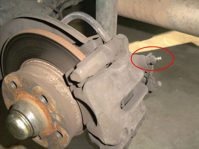 Disk Brake Bleeder Valve